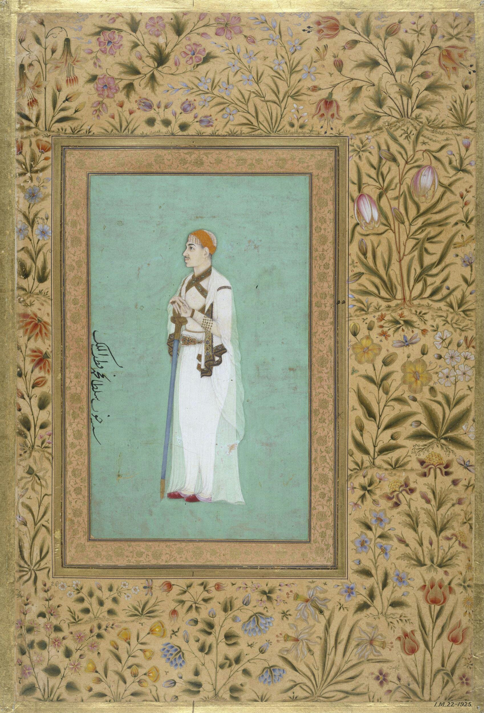 Sultan Muhammad Qutb Shah was the 6th king of Golkonda.